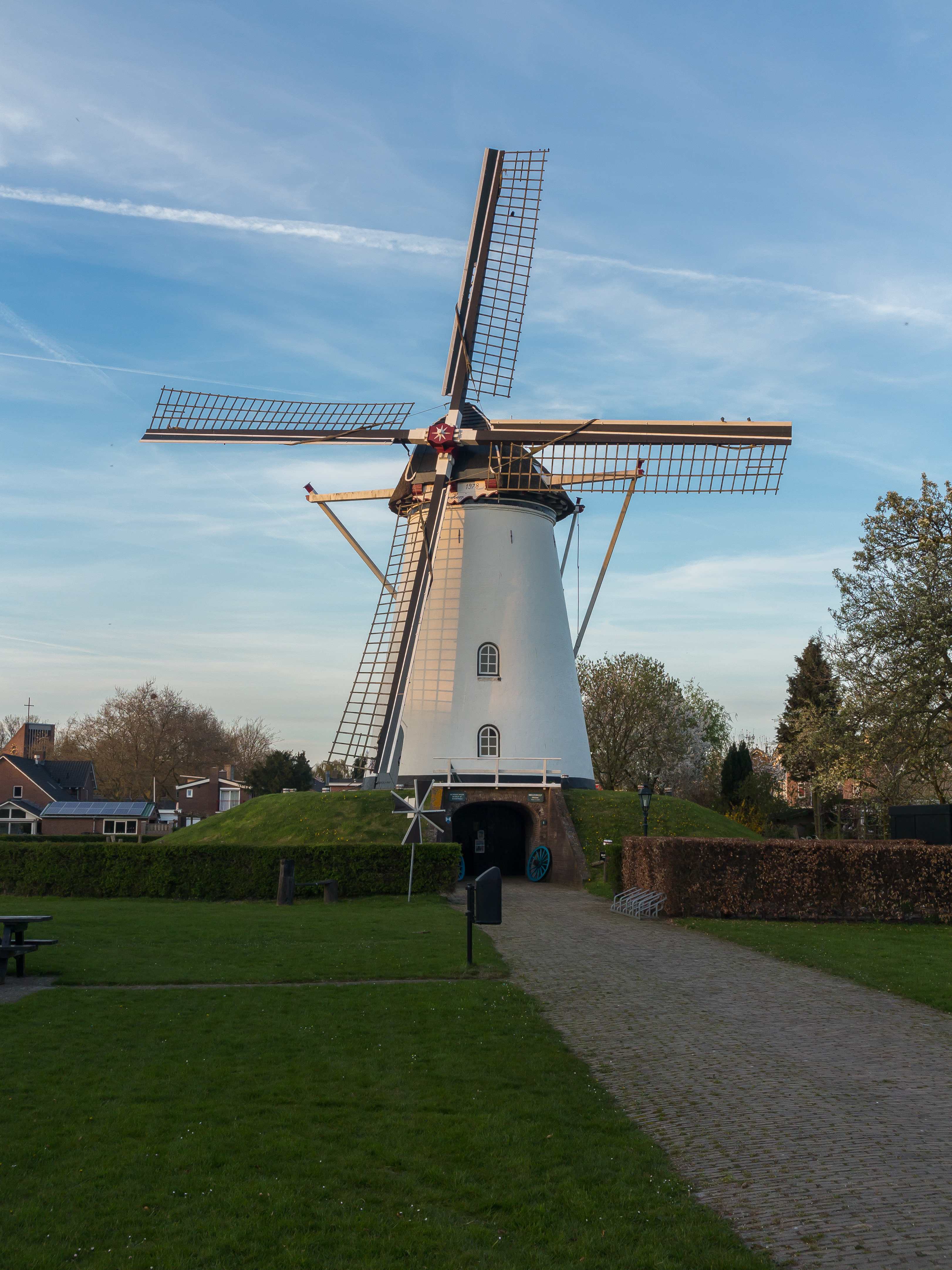 Elden, windmill: molen de Hoop